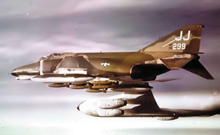 F-4E of the 34th TFSq, 388 TFWg, Korat Royal Thai Air Force Base.